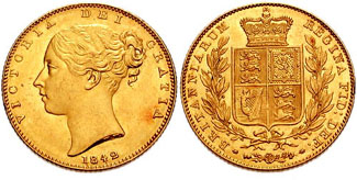 Victoria of the United Kingdom. 1837-1901. AV Sovereign (7.99 g). Dated 1842. Young head left Crowned coat-of-arms. SCBC 3852; KM 736.1.